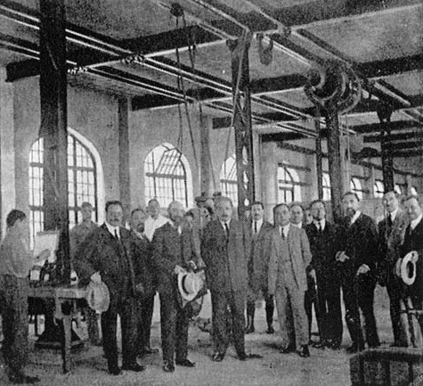 Albert Einstein, center, visits The Technion in 1923. During his visit, he planted a now-famous first palm tree that still stands in front of the old Technion building in Hadar.